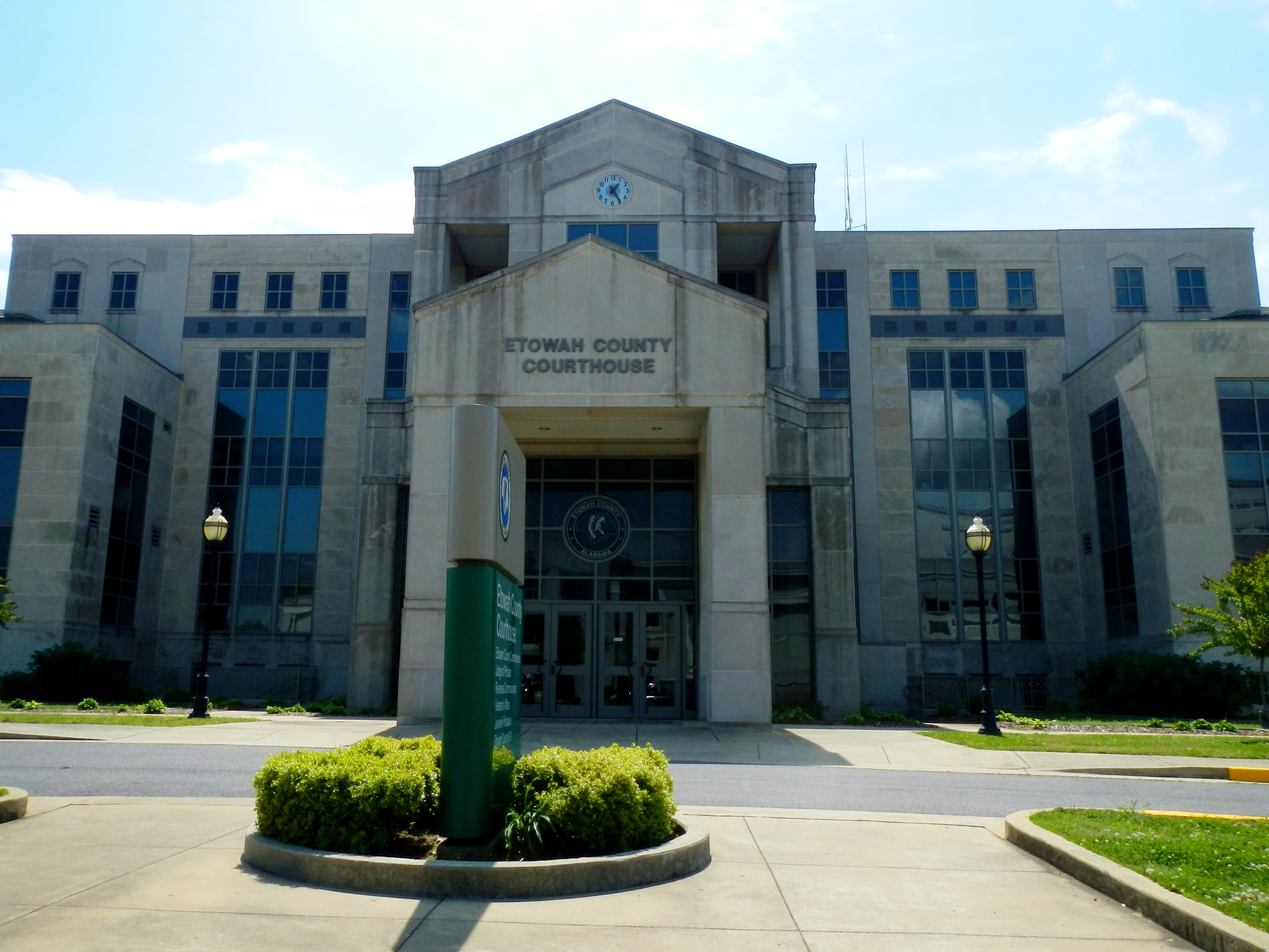 This is a photograph of the Etowah County Courthouse in Gadsden, Alabama.